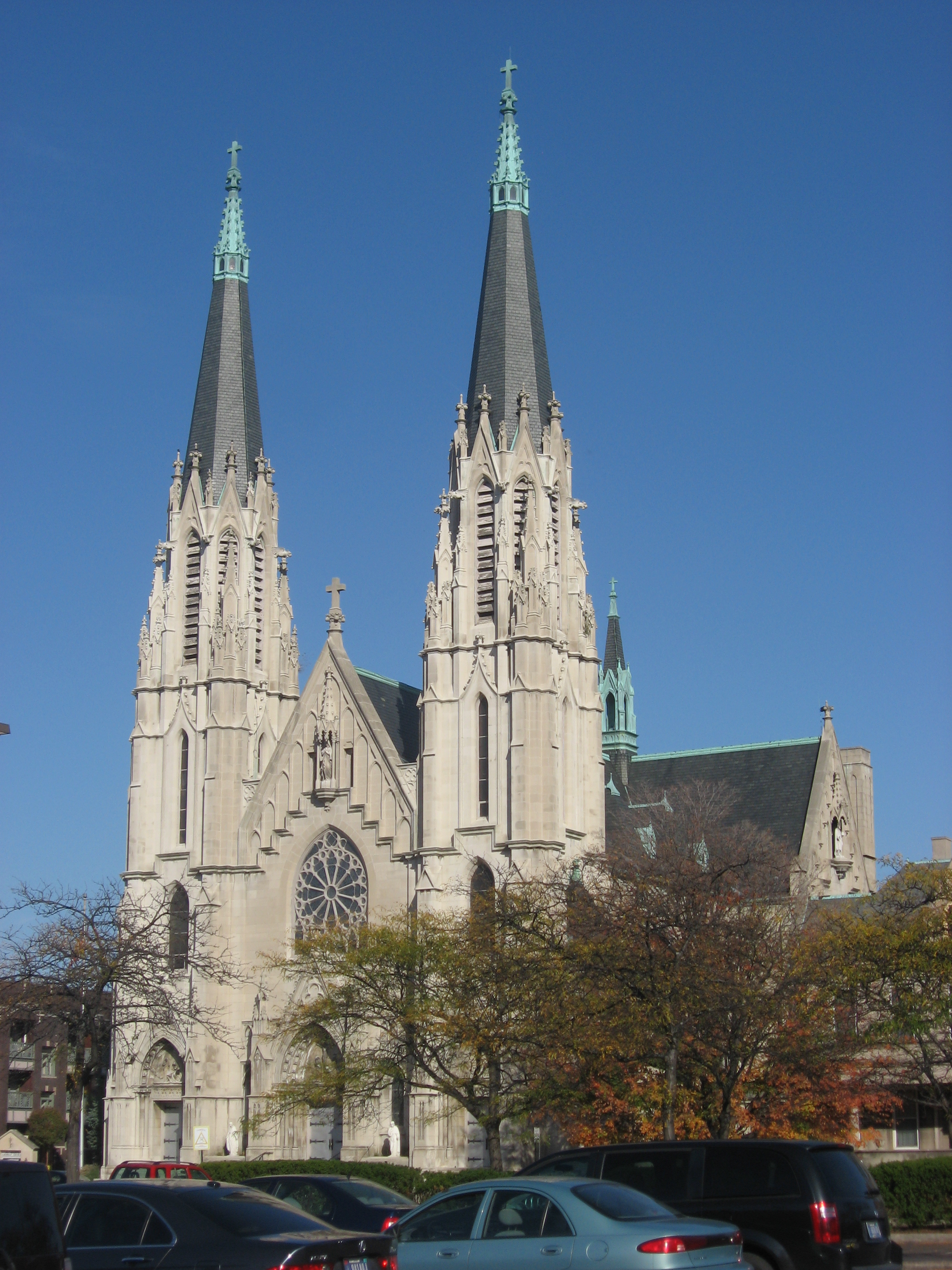 Front and southern side of St. Mary's Catholic Church, located at 317 N. New Jersey Street in Indianapolis, Indiana, United States. Built in 1910, it is listed on the National Register of Historic Places, and it is part of a Register-listed historic district, the Lockerbie Square Historic District.